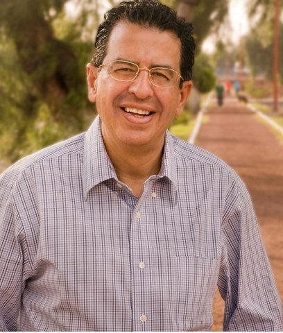 Ruben Mendoza en Tlalnepantla de Baz